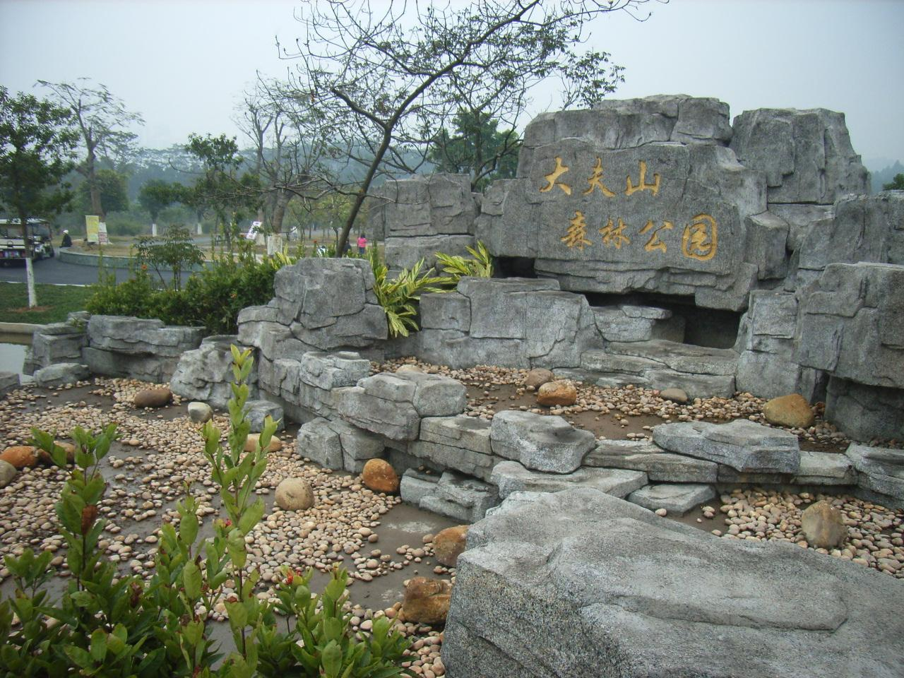 廣州大夫山森林公園 [1]